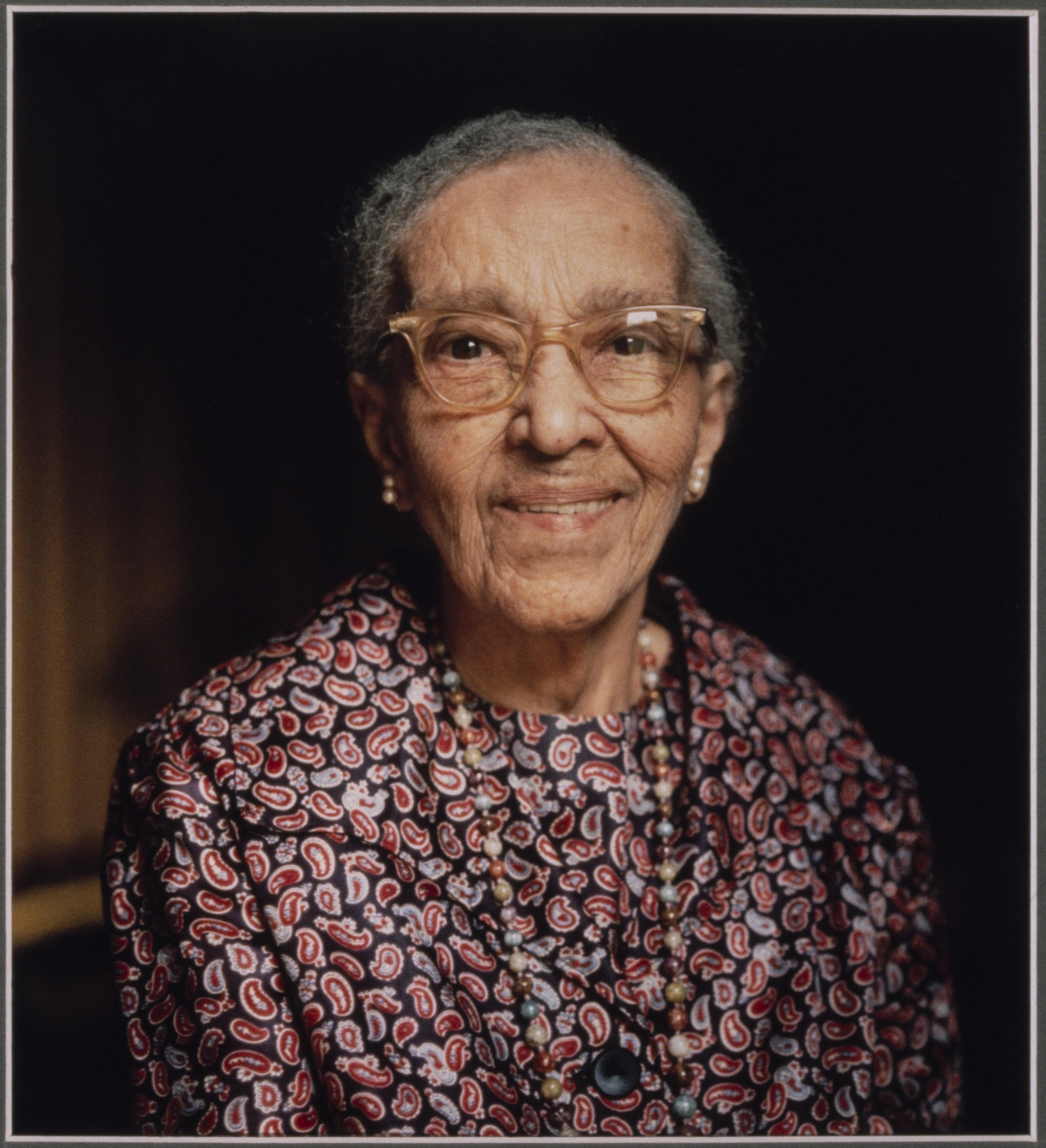 Biography: Bazoline Usher rose through the ranks of the Atlanta public school system to become supervisor of Black education, at the time the highest position ever held by a Black person in the field of education in Atlanta. The daughter of Lavada Smith and Joe Samuel Usher, she attended Atlanta University's Laboratory High School and graduated from the College in 1906. She then spent ten years teaching in Virginia. Returning to Atlanta, over the next forty years, Miss Usher held a series of positions of increasing importance in the school system--as teacher, assistant principal, and principal. She studied at the graduate level at the University of Chicago, and in 1938 received a master's degree in education from Atlanta University. In 1944 she was appointed supervisor of education for Blacks in the Atlanta school system, and held that position until her retirement in 1954. She then taught at Spelman College for three years. She has been active in the Friendship Baptist Church, and is one of the original members of the Uplifters Club, a fund-raising and social outreach auxiliary of the church. Other memberships include AKA and the Girl Scouts, which she and Grace Hamilton introduced to Black girls in Atlanta in 1943. She received the Bronze Woman of the Year award from Iota Phi Lambda in 1946, a scroll of honor from Fort Valley State College in 1952, and was recognized by the Uplifters Club for meritorious service to the club, the community, and the church. Description: The Black Women Oral History Project interviewed 72 African American women between 1976 and 1981. With support from the Schlesinger Library, the project recorded a cross section of women who had made significant contributions to American society during the first half of the 20th century. Photograph taken by Judith Sedwick Repository: Schlesinger Library on the History of Women in America. Collection: Black Women Oral History Project Research Guide: Questions?